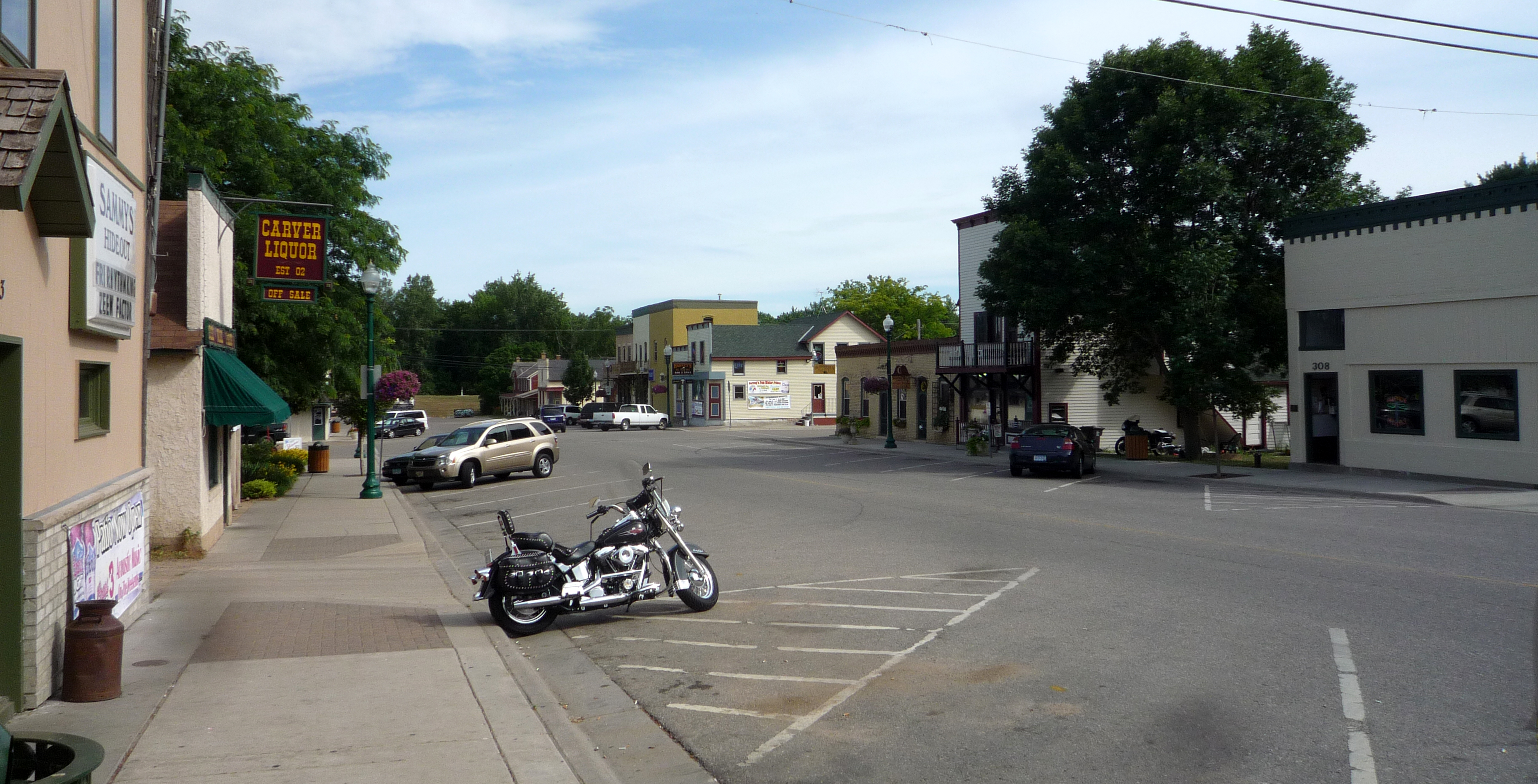 Broadway, the main street through the Carver Historic District on the NRHP, Carver, Minnesota, USA.